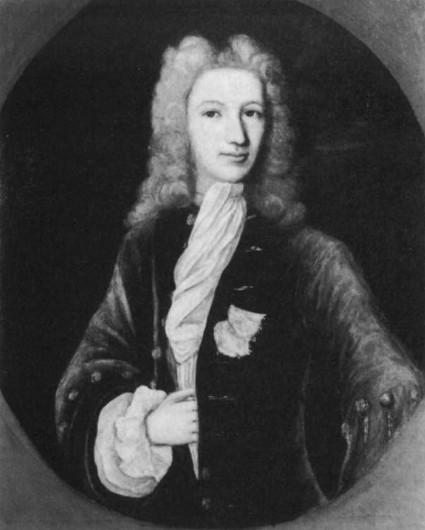 John Fitzgerald,19th Knight of Glin